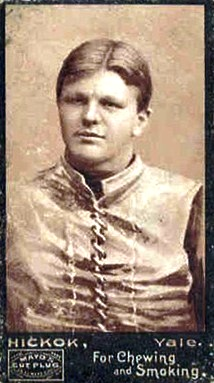 Mayo's Cut Plug football card of Bill Hickock